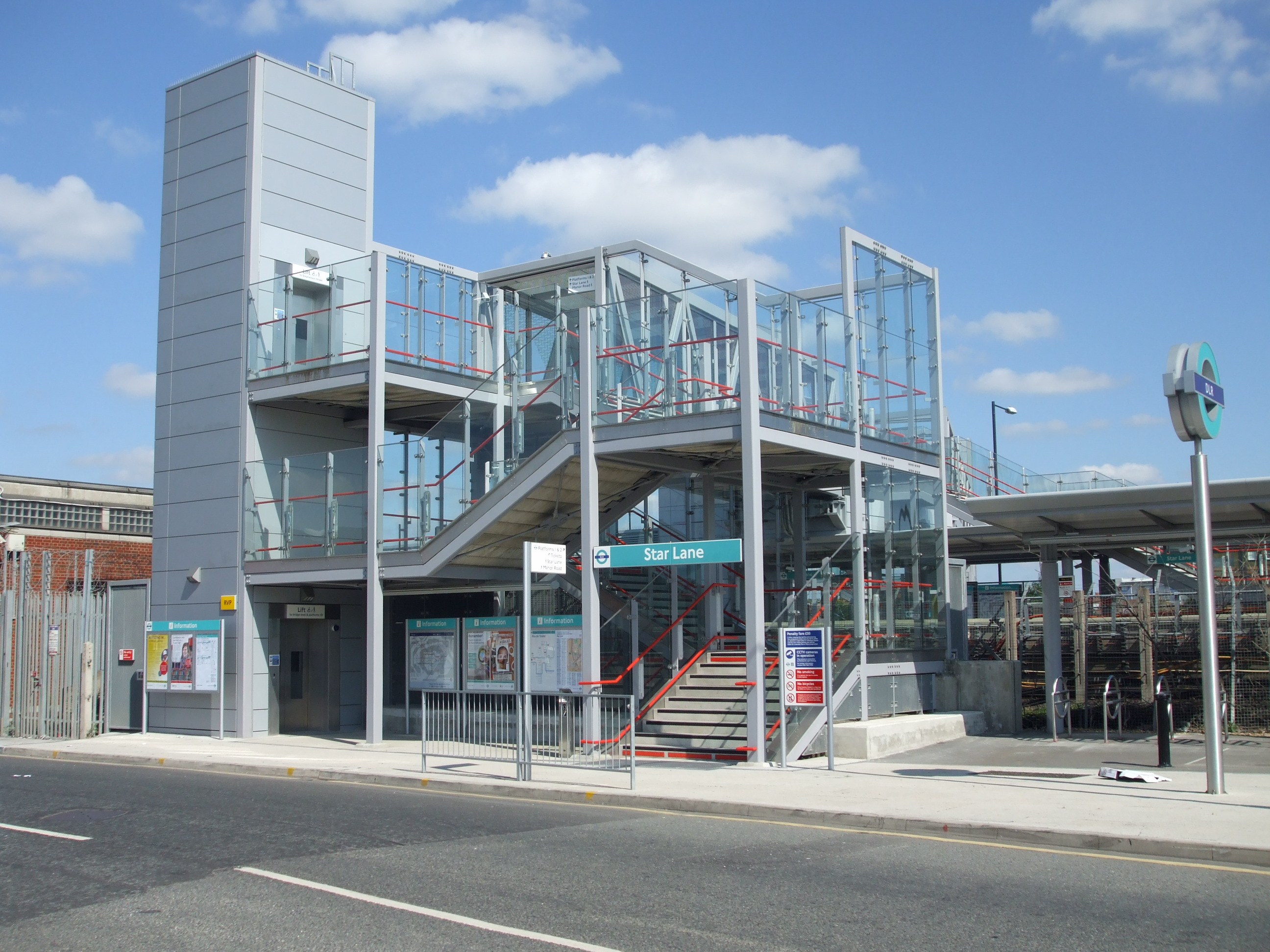 Star Lane DLR station western entrance, soon after opening.